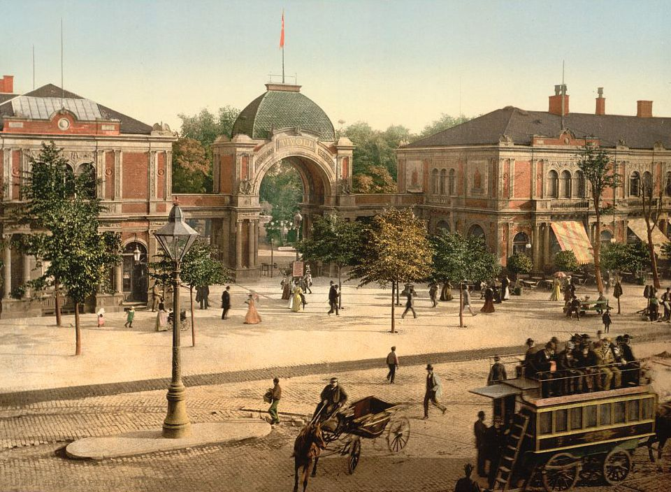 [The Tivoli park entrance, Copenhagen, Denmark] [between ca. 1890 and ca. 1900]. 1 photomechanical print : photochrom, color. Notes: Title from the Detroit Publishing Co., catalogue J, foreign section. Detroit, Mich. : Detroit Publishing Company, c1905. Print no. 6391. Forms part of: Views of architecture and other sites in Copenhagen, Denmark in the Photochrom print collection. Subjects: Denmark--Copenhagen. Format: Photochrom prints--Color--1890-1900. Repository: Library of Congress, Prints and Photographs Division, Washington, D.C. 20540 USA, Part Of: Views of architecture and other sites in Copenhagen, Denmark (DLC) 2001697980 More information about the Photochrom Print Collection is available at Persistent URL: Call Number: LOT 13421, no. 013 [item]